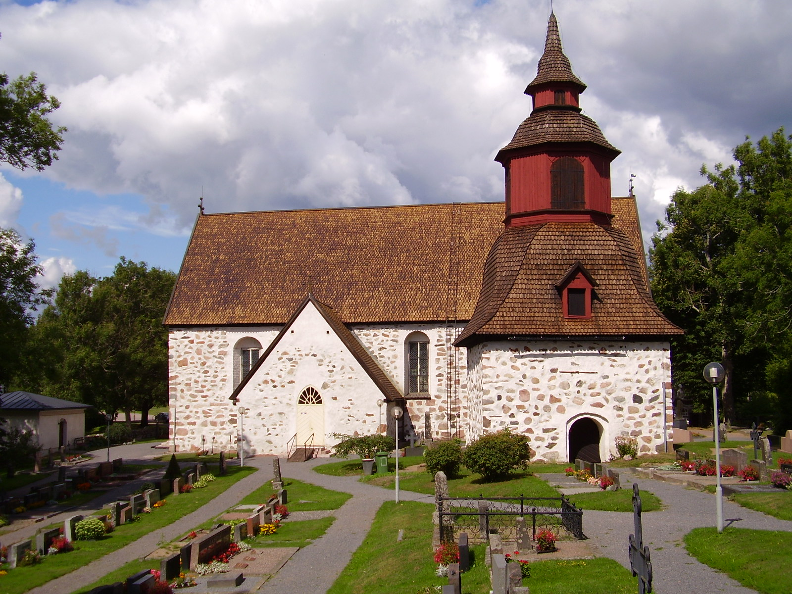 Tenala gray stone church.